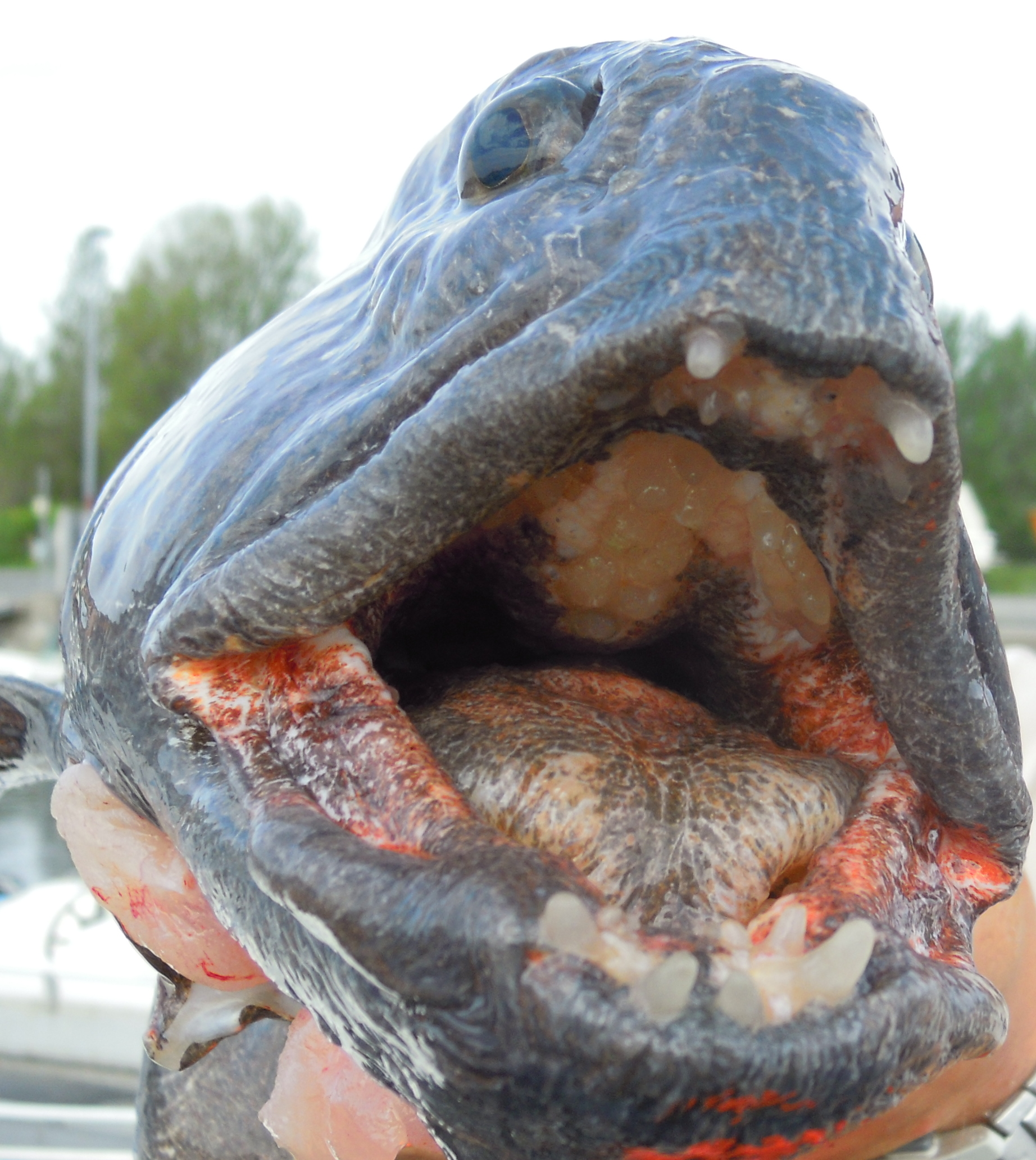 Atlantic wolffish (Anarhichas lupus), Stavern Norway. You are free to use this picture outside Wikipedia (see license), as long as you write: Photo: Arnstein Rønning